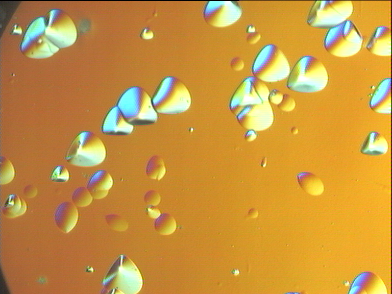 Title: Dislocations in Si crystal, orientation 111 Desc: Image of dislocations in Si crystal made using interference microscope with 500x magnification. Crystal orientation can be determined by the triangular (pyramidal) shape of dislocations. Author: Twisp Date: 24.08.2005